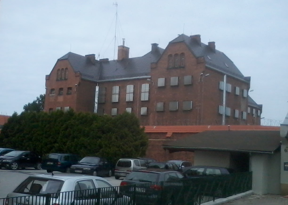 Prison in Kluczbork, cropped